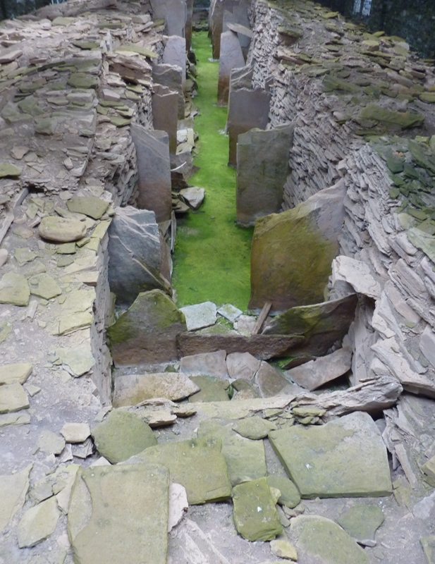 Midhowe Chambered Cairn, Rousay, Orkney, Scotland - from the north